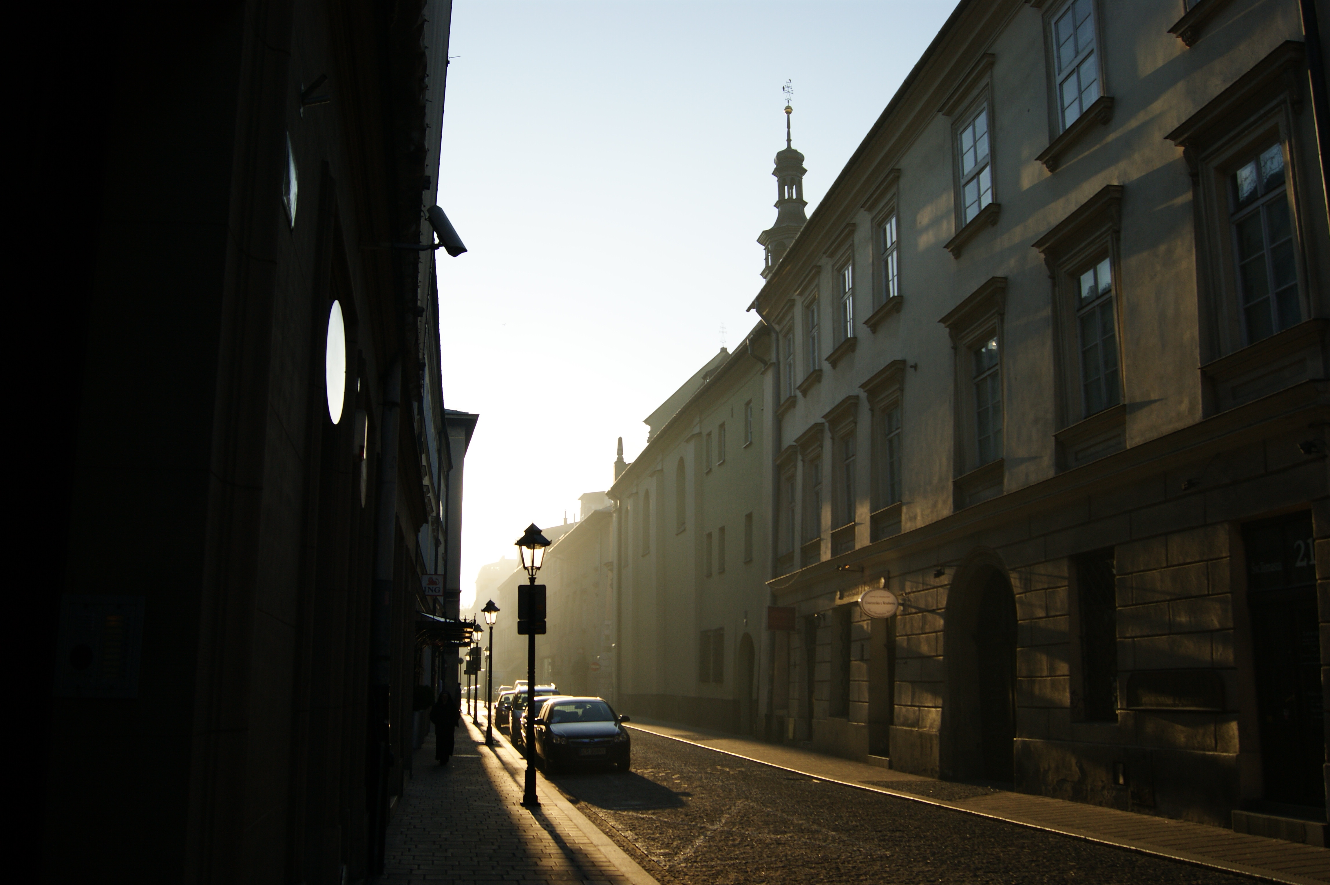 Sw. Tomasza (St Thomas) street, Old Town, Krakow, Poland